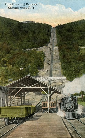 Courtesy of